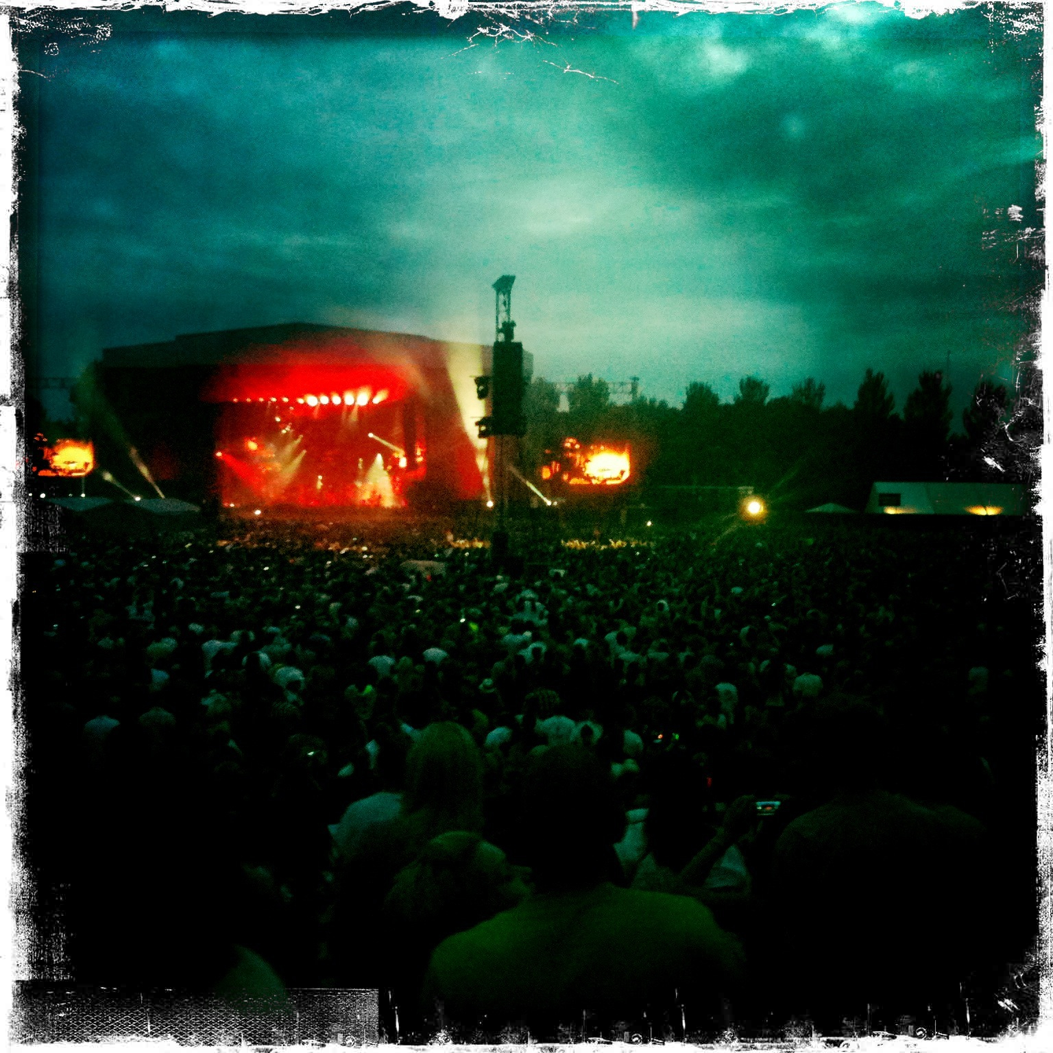 The Prodigy @ Warriors Dance Festival, Milton Keynes 24 July 2010